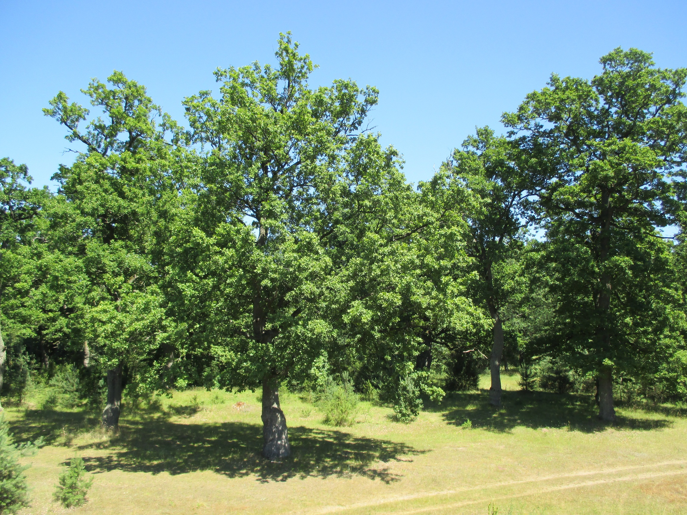 Поймавая дуброва ў даліне Нёмана паблізу Орлі, Шчучынскі раён, Беларусь